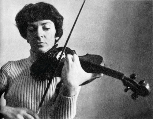 Wanda Wiłkomirska, Polish violinist